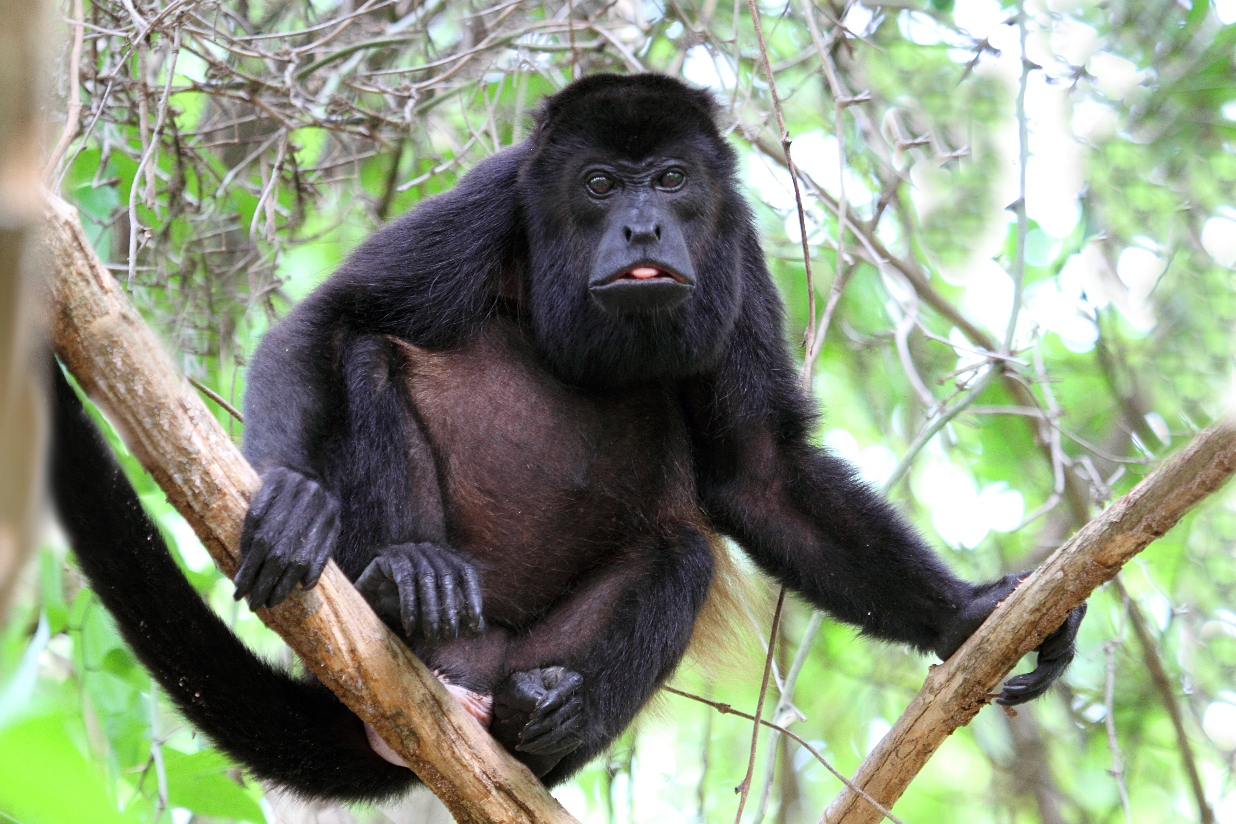 Mantled howler in Mangrove along estero de Playa Grande, Costa Rica.